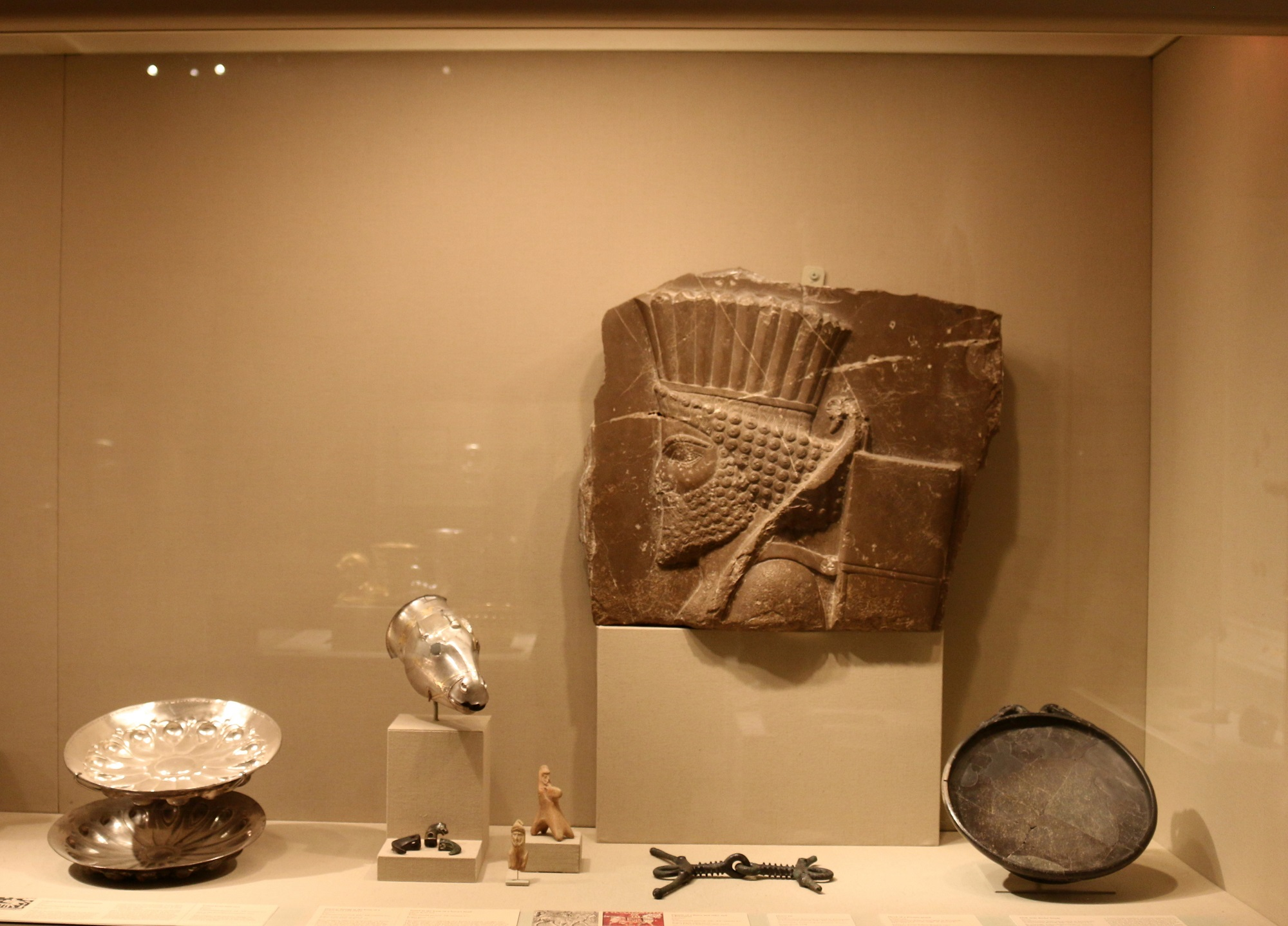 Persian Objects at Metropolitan Museum of Art, New York, 2015. Photo: Pejman Akbarzadeh / Persian Dutch Network